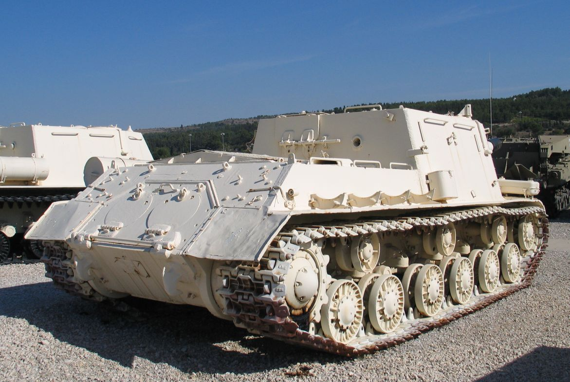 Description: ISU-152 152 mm self-propelled gun-howitzer in Yad la-Shiryon Museum, Israel. 2005. Source: Photo by me, User:Bukvoed.